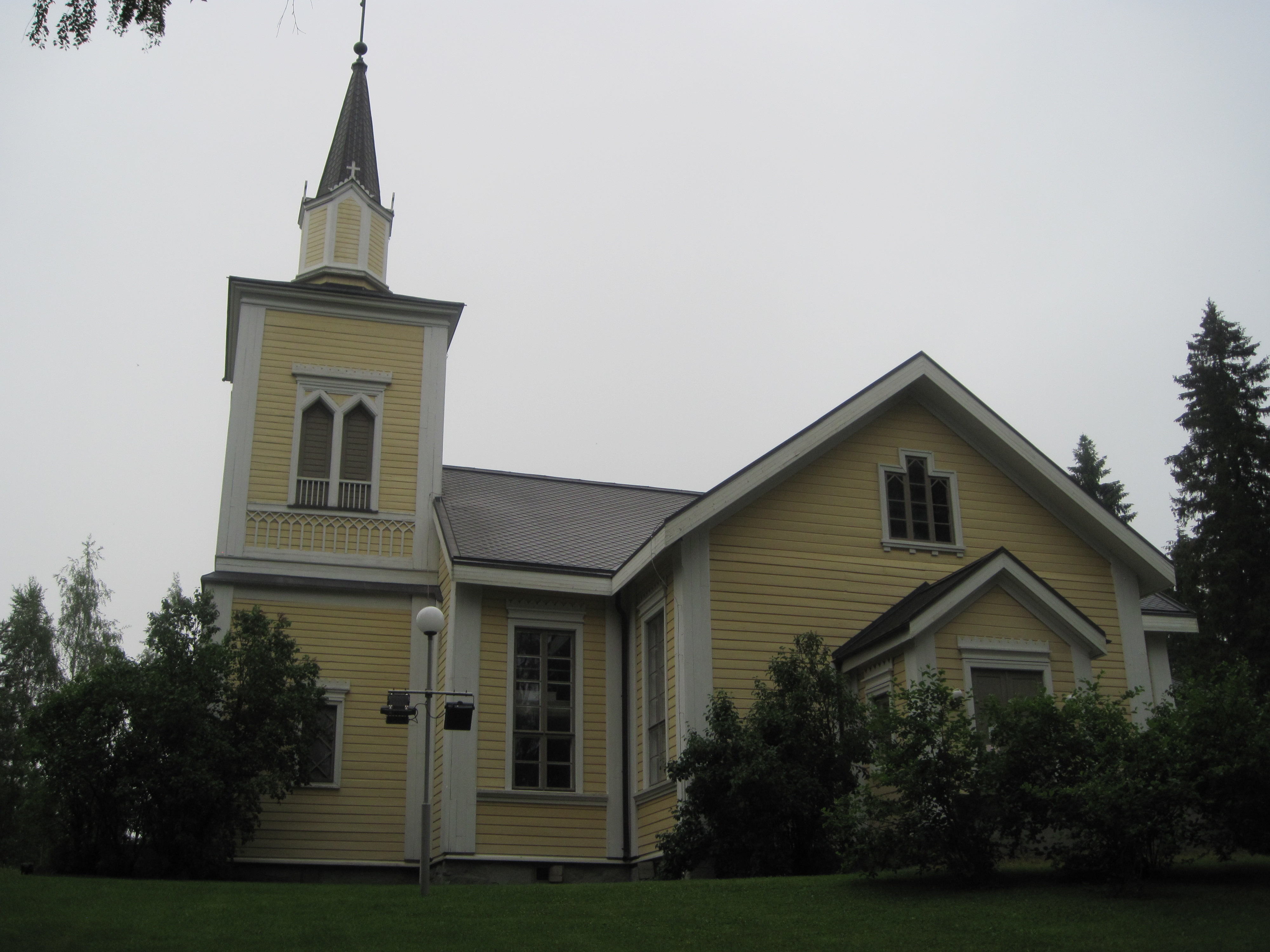 Jämijärvi Church in Jämijärvi, Finland, was designed by architect Georg Theodor von Chiewitz and built in 1859–1860.